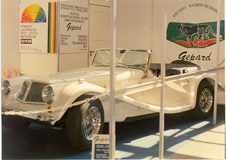 The gepard motoryzacja